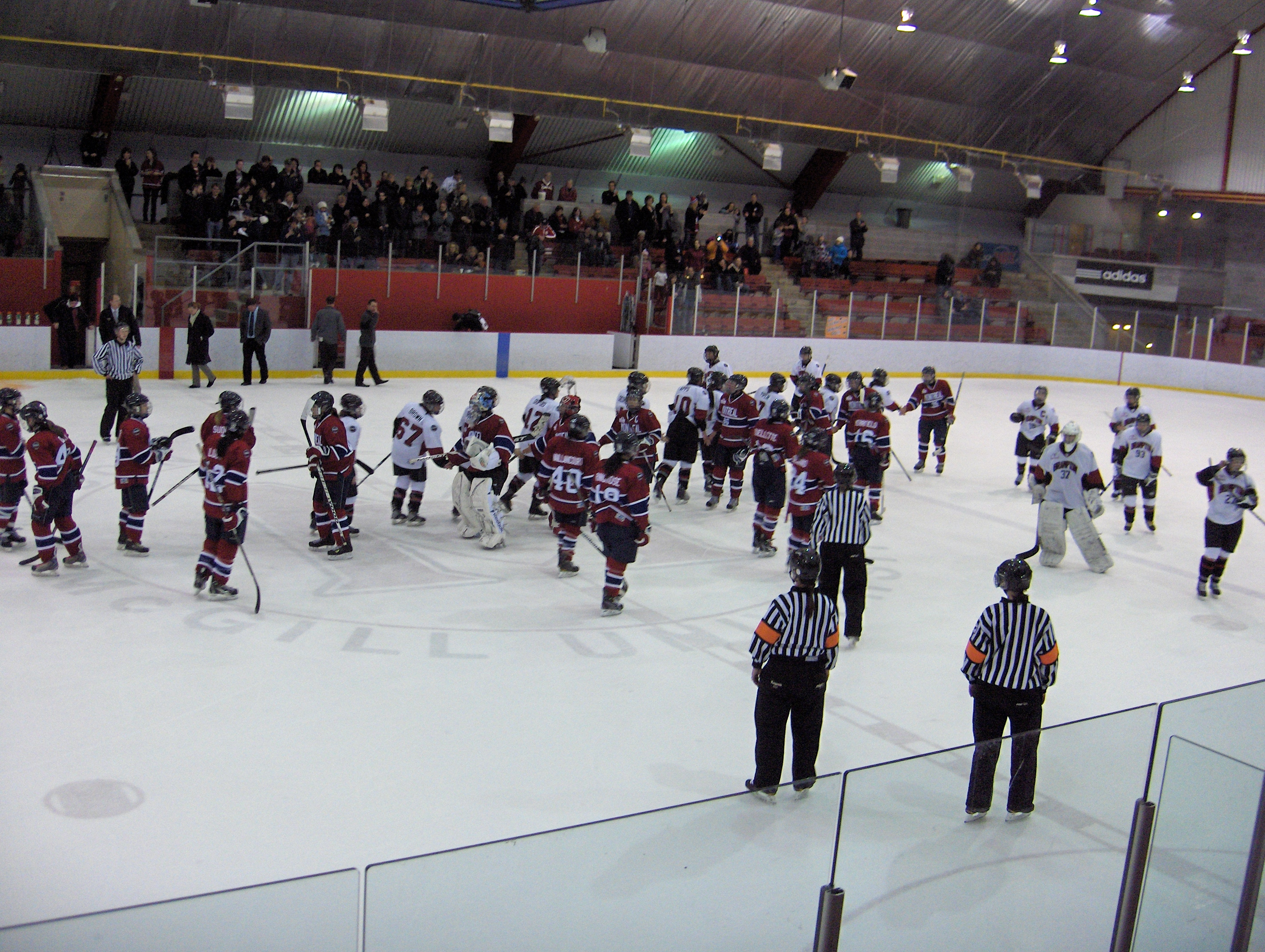 playoff Montreal-Brampton in Canadian Women Hockey League. On March 12 2011 at McConnell Arena (McGill University), Montreal, Canada.